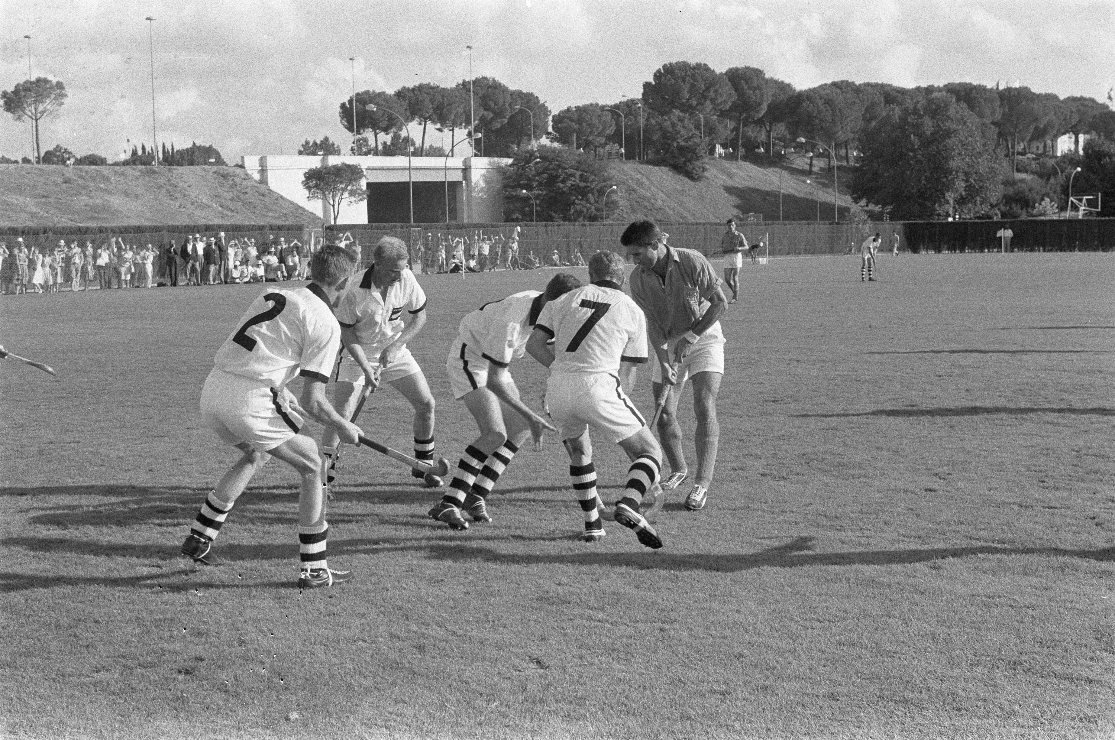 Tie-breaker field hockey match between New Zealand and the Netherlands to determine the second place in the group A of field hockey tournament at the 17th Olympic games in Rome; the match was played at the Tre Fontane Stadium and was won 2:1 by New Zealand